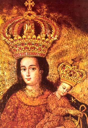 Our Lady of Las Lajas The picture penetrates the rock miraculously